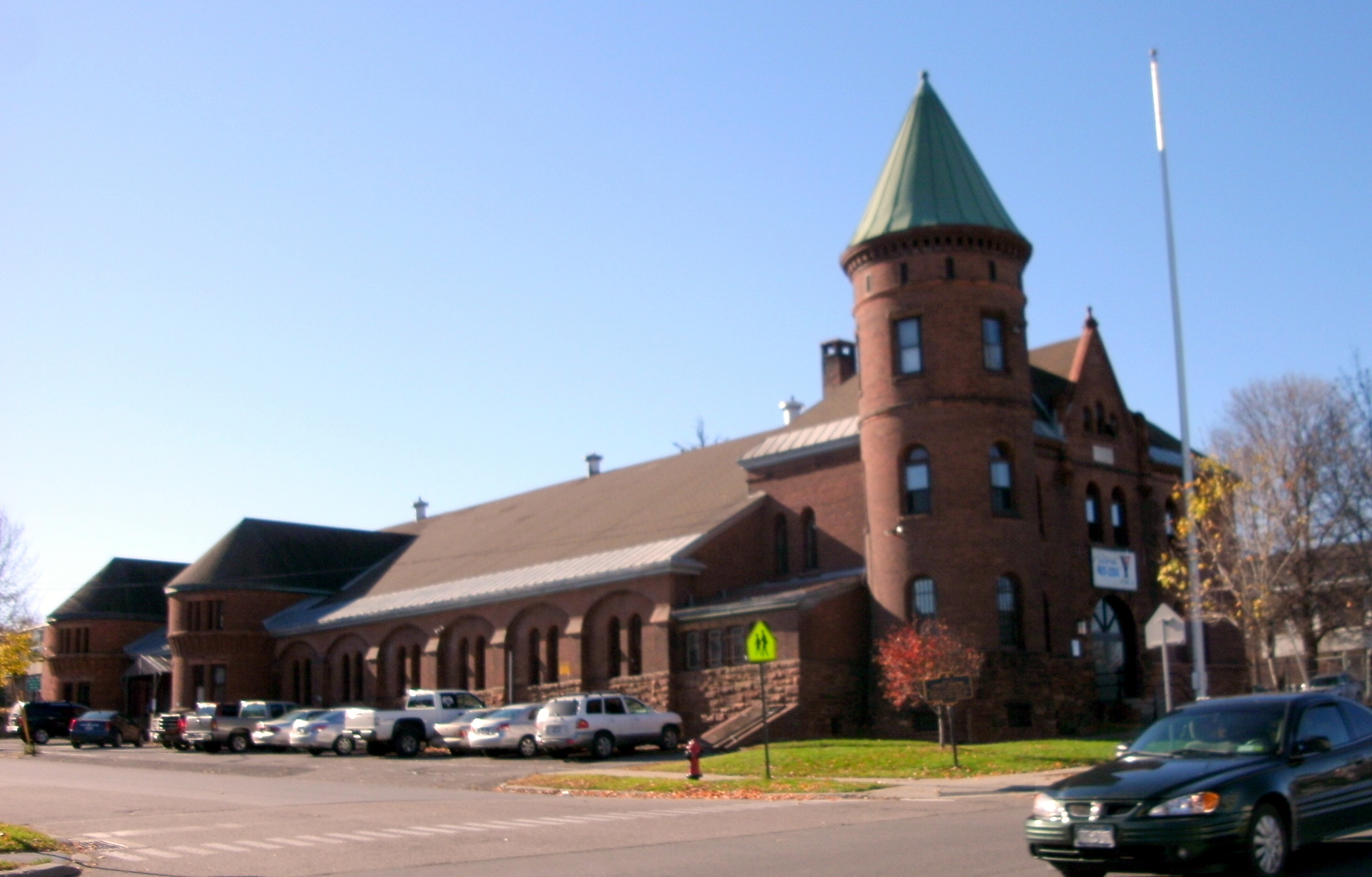 GE DIGITAL CAMERA Malone, New York